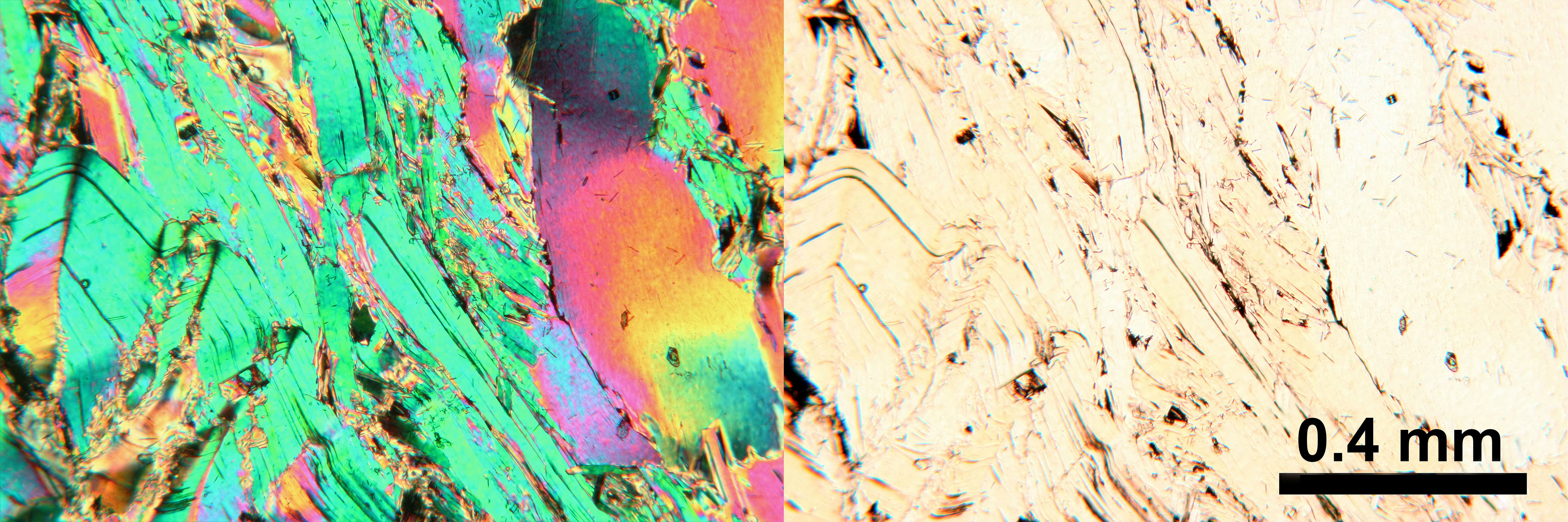 Optical mineralogy: Photomicrographs of thin section from Siilinjärvi apatite ore. Tetraferriphlogopite grains in thin section H10. The sample is only slightly deformed (shear grade 3), and the mica flakes are bent, but still mainly unbroken. Photomicrograph from thin section in cross and plane polarised light.